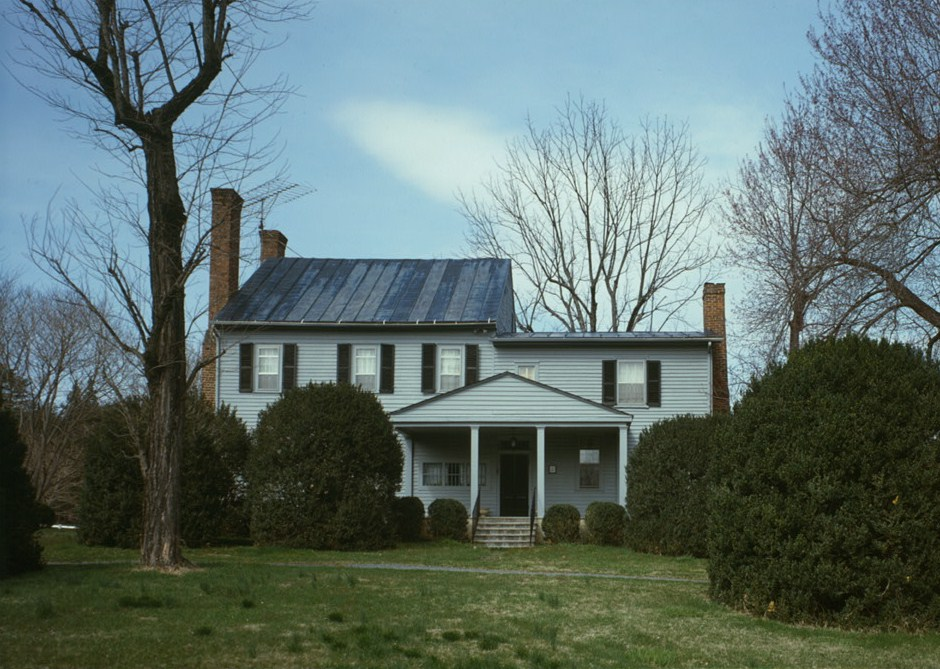 Boswell's Tavern, Route 22 vicinity, Gordonsville vicinity (Louisa County, Virginia) cropped This file comes from the Historic American Buildings Survey (HABS), Historic American Engineering Record (HAER) or Historic American Landscapes Survey (HALS). These are programs of the National Park Service established for the purpose of documenting historic places. Records consist of measured drawings, archival photographs, and written reports. When reusing please credit: Library of Congress, Prints & Photographs Division, va13 This tag does not indicate the copyright status of the attached work. A normal copyright tag is still required. See Commons:Licensing. This work is in the public domain in the United States because it is a work prepared by an officer or employee of the United States Government as part of that person’s official duties under the terms of Title 17, Chapter 1, Section 105 of the US Code. Note: This only applies to original works of the Federal Government and not to the work of any individual U.S. state, territory, commonwealth, county, municipality, or any other subdivision. This template also does not apply to postage stamp designs published by the United States Postal Service since 1978. (See § 313.6(C)(1) of Compendium of U.S. Copyright Office Practices). It also does not apply to certain US coins; see The US Mint Terms of Use. This file has been identified as being free of known restrictions under copyright law, including all related and neighboring rights.